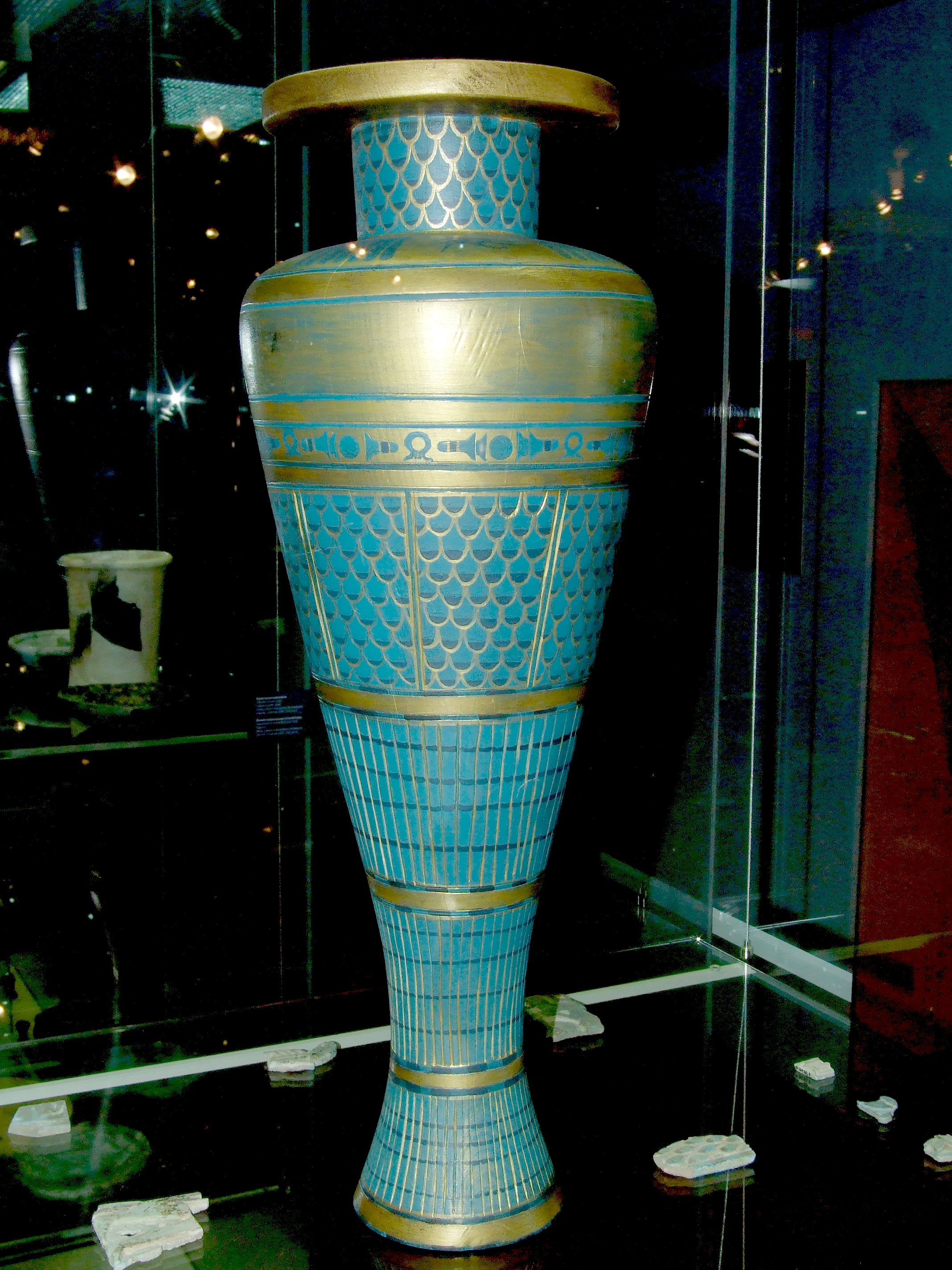 Náprstek Museum, National Museum in Prague